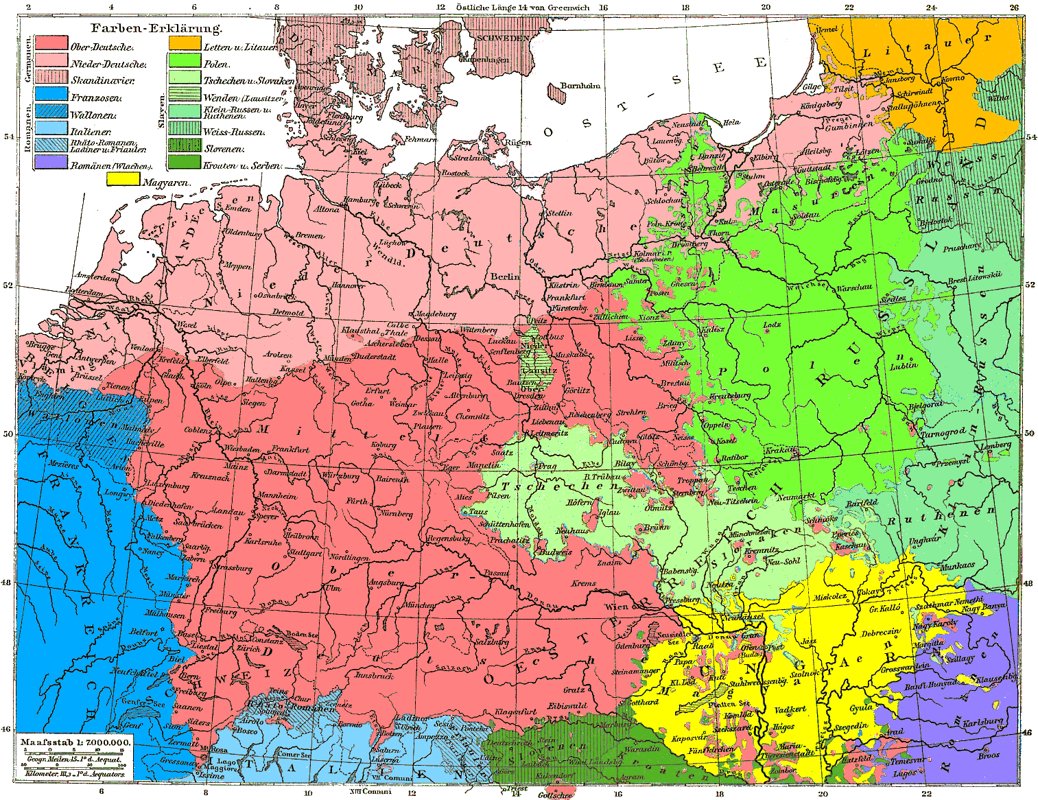 Language map of Germany, from a German atlas printed in 1881. The colours in this scan have been enhanced, but regional representations have not been altered. Note: this map identifies even areas with a German-speaking minority as "German".